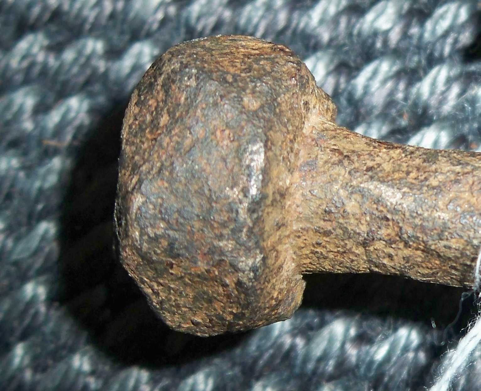 The tsuksgashira of an Indonesian tjabang (sai).